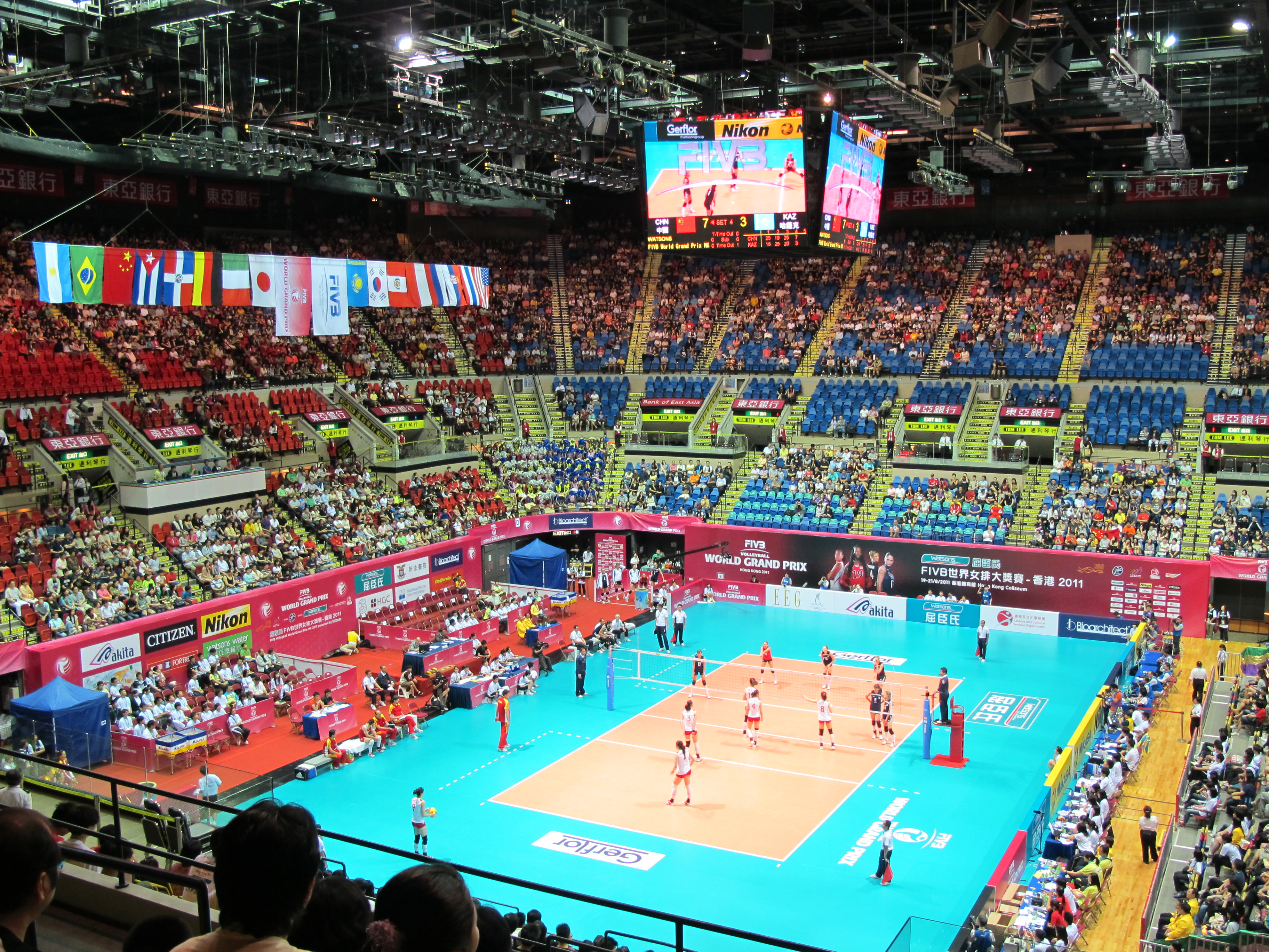 2011 FIVB World Grand Prix - Hong Kong